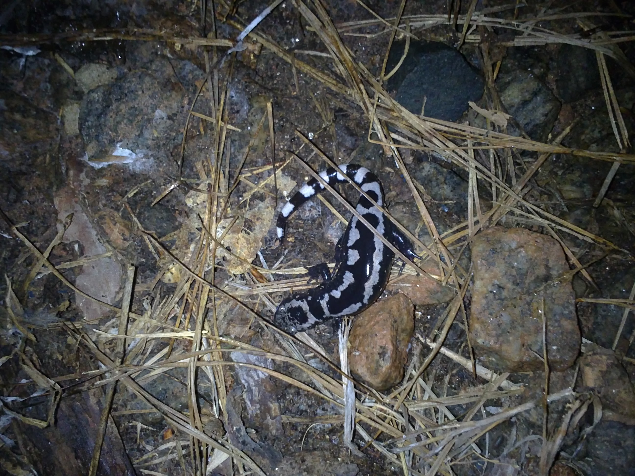 A marbled salamander (Ambystoma opacum) in Georgia